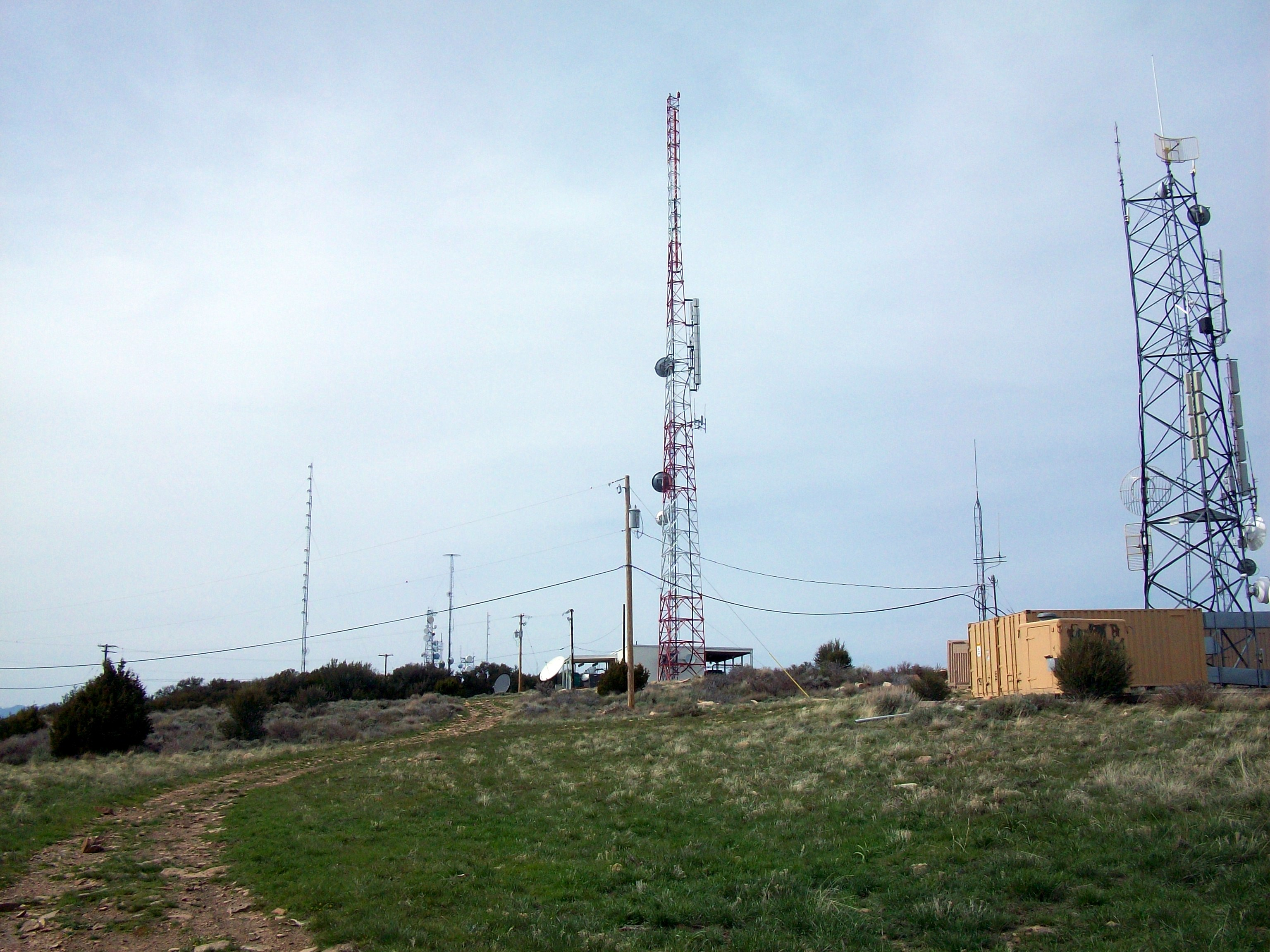 The main tower farm atop Lake Mountain, Utah. Taken on May 10, 2009 with a Kodak Easyshare M763 digital camera.